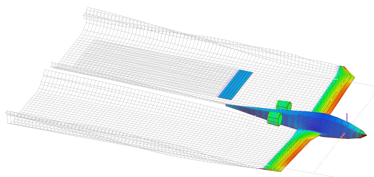 Open VOGEL is an open source framework for aerodynamic simulations based in the unsteady vortex lattice method (UVLM).